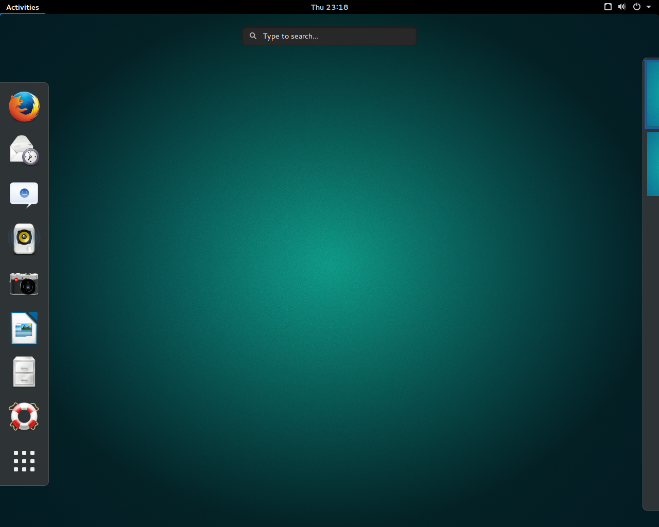 A screenshot of the desktop of Ubuntu GNOME 15.10 (Wily Werewolf).